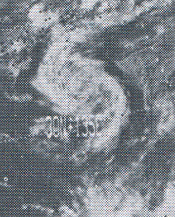 This weather satellite picture of Tropical Cyclone Ellen was taken on July 23, 1973